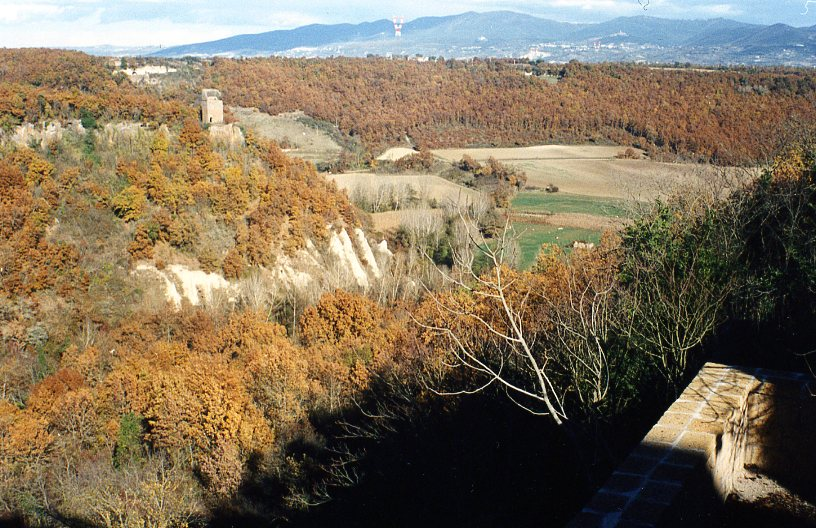 My photo taken in 1996 of the view from Monte Calvello, Balthus's castle in Italy, that provided the inspiration for paintings, drawings, and watercolours.